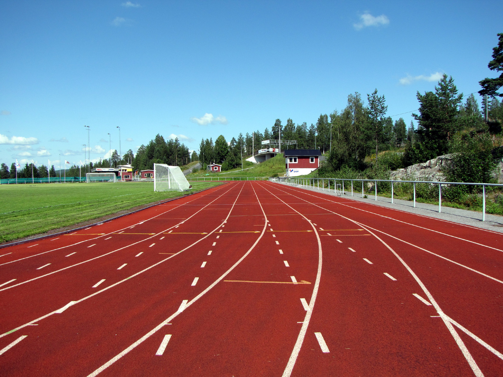 Athletics tracks at Skyttis IP in Örnsköldsvik, Sweden